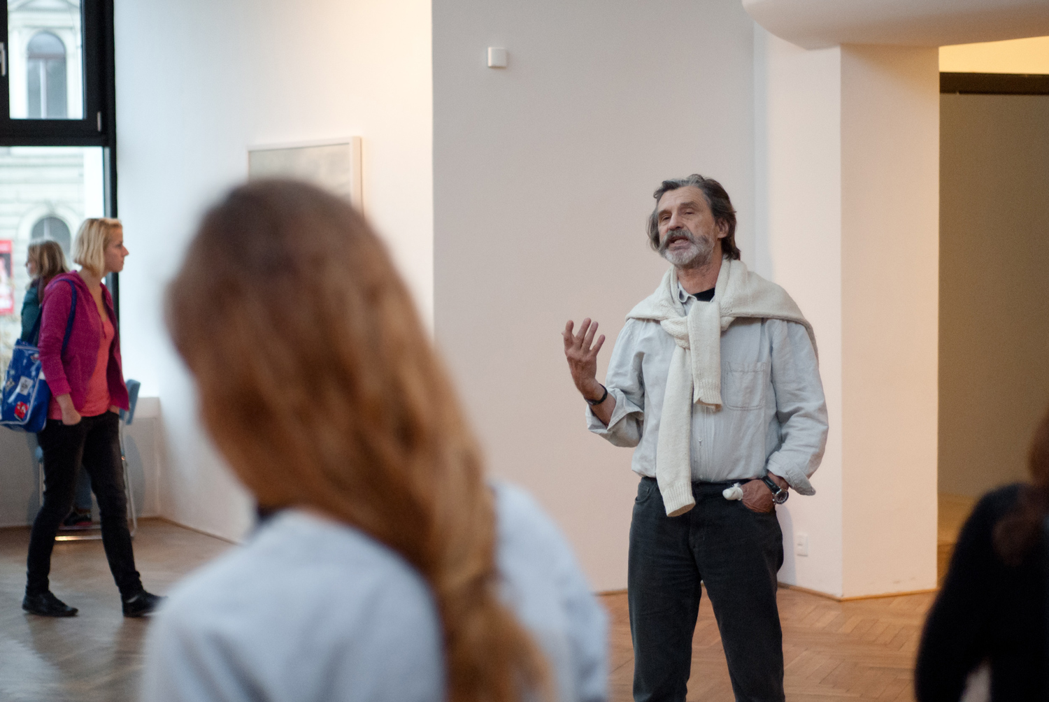 Professor Pavel Baňka, photographer and teacher, at his show in Brno, 2011.